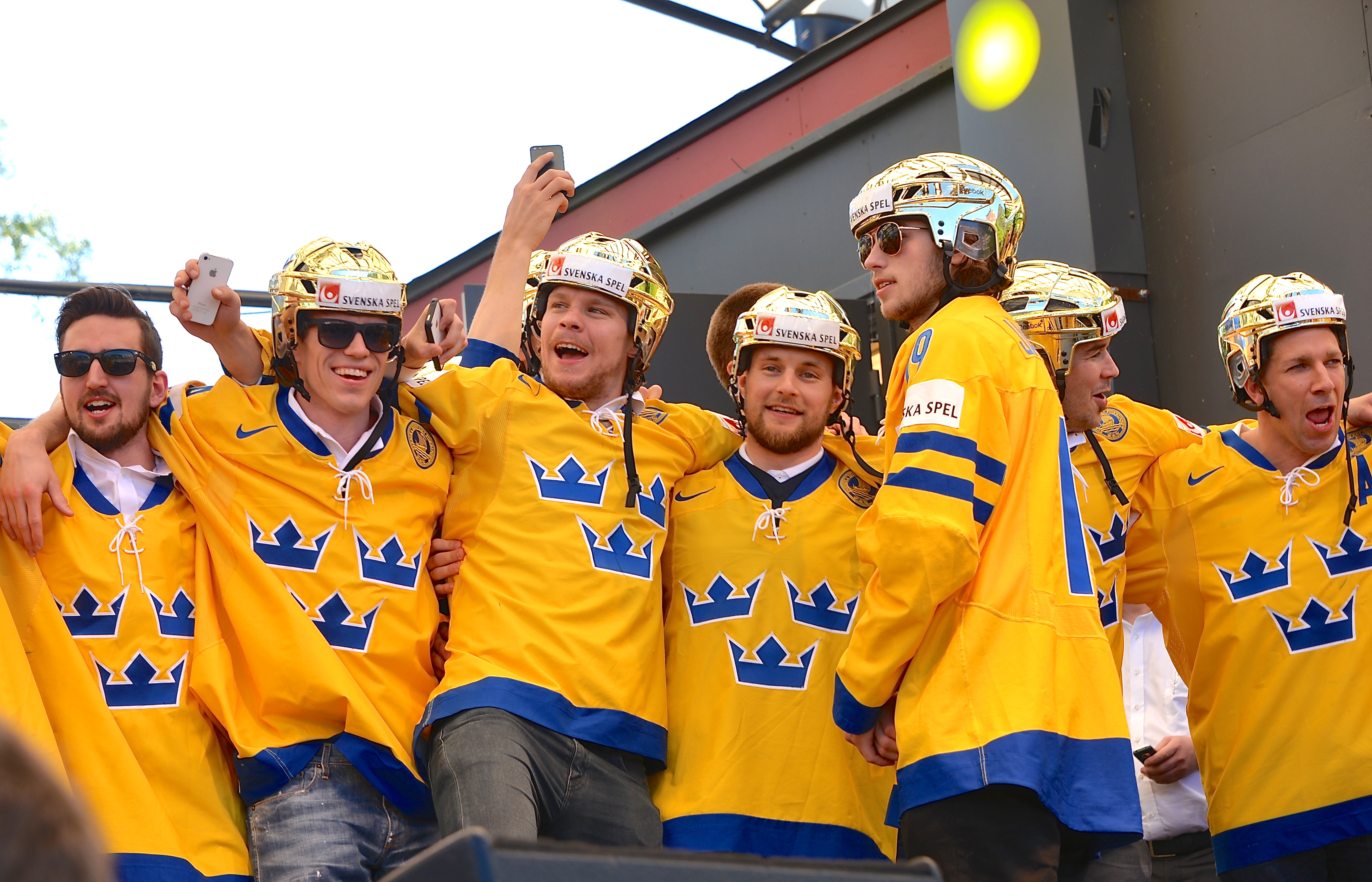 The Swedish team in the Kungsträdgården in Stockholm on May 20th after winning the IIHF World Championship 2013.